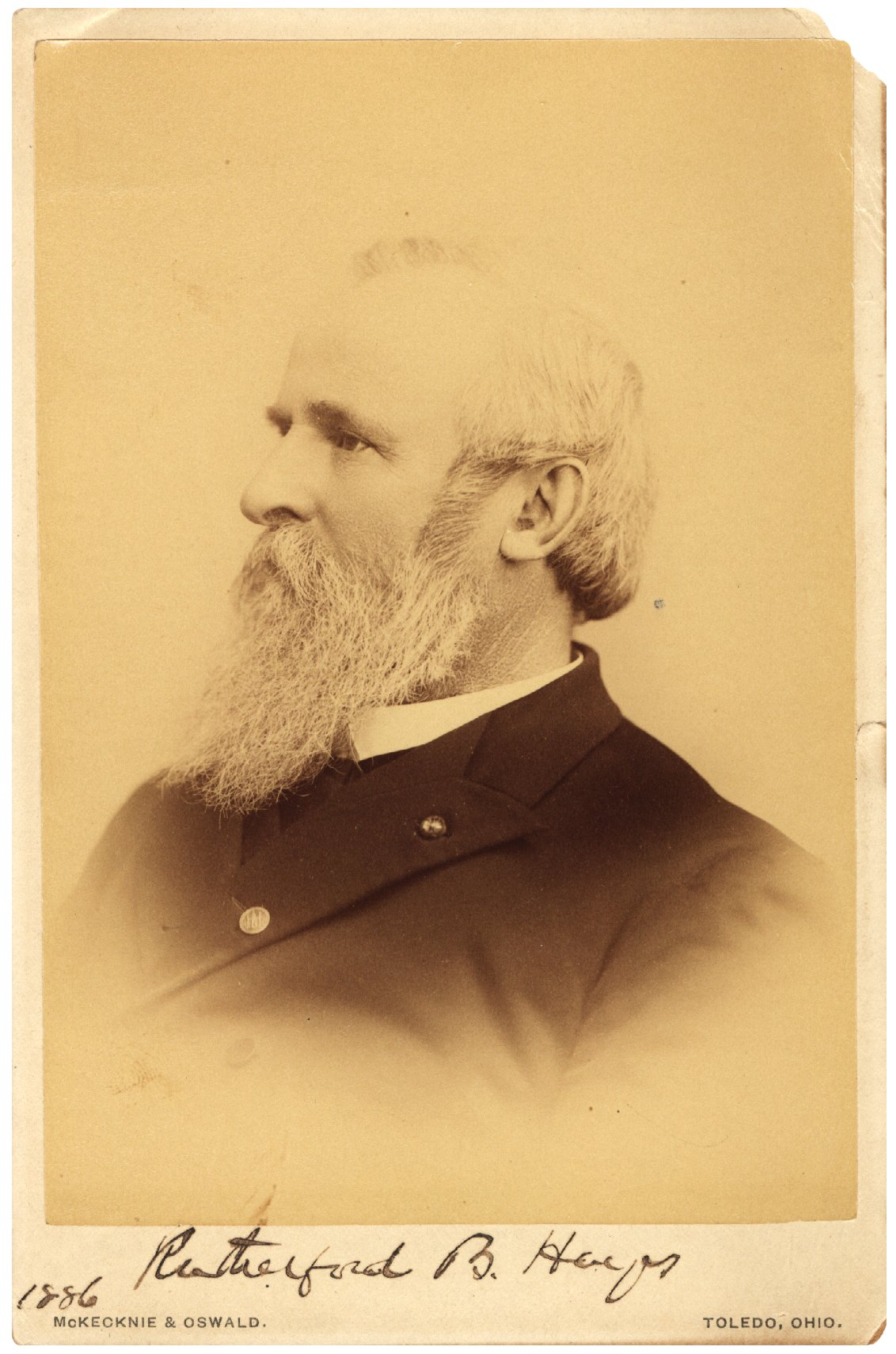 Portrait of Rutherford B. Hayes